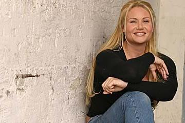 Commercial shot of actress and athlete Robin Coleman